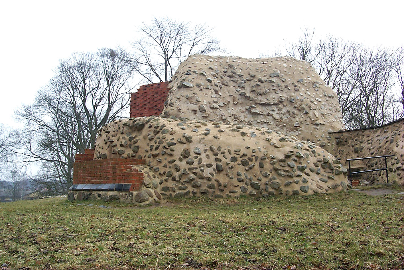 The ruins after the castle of Solvesborg, Sweden.